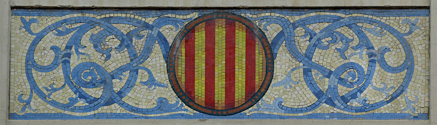 Casa Doctor Genové - Catalan Modernisme (1911, Enric Sagnier i Villavecchia)